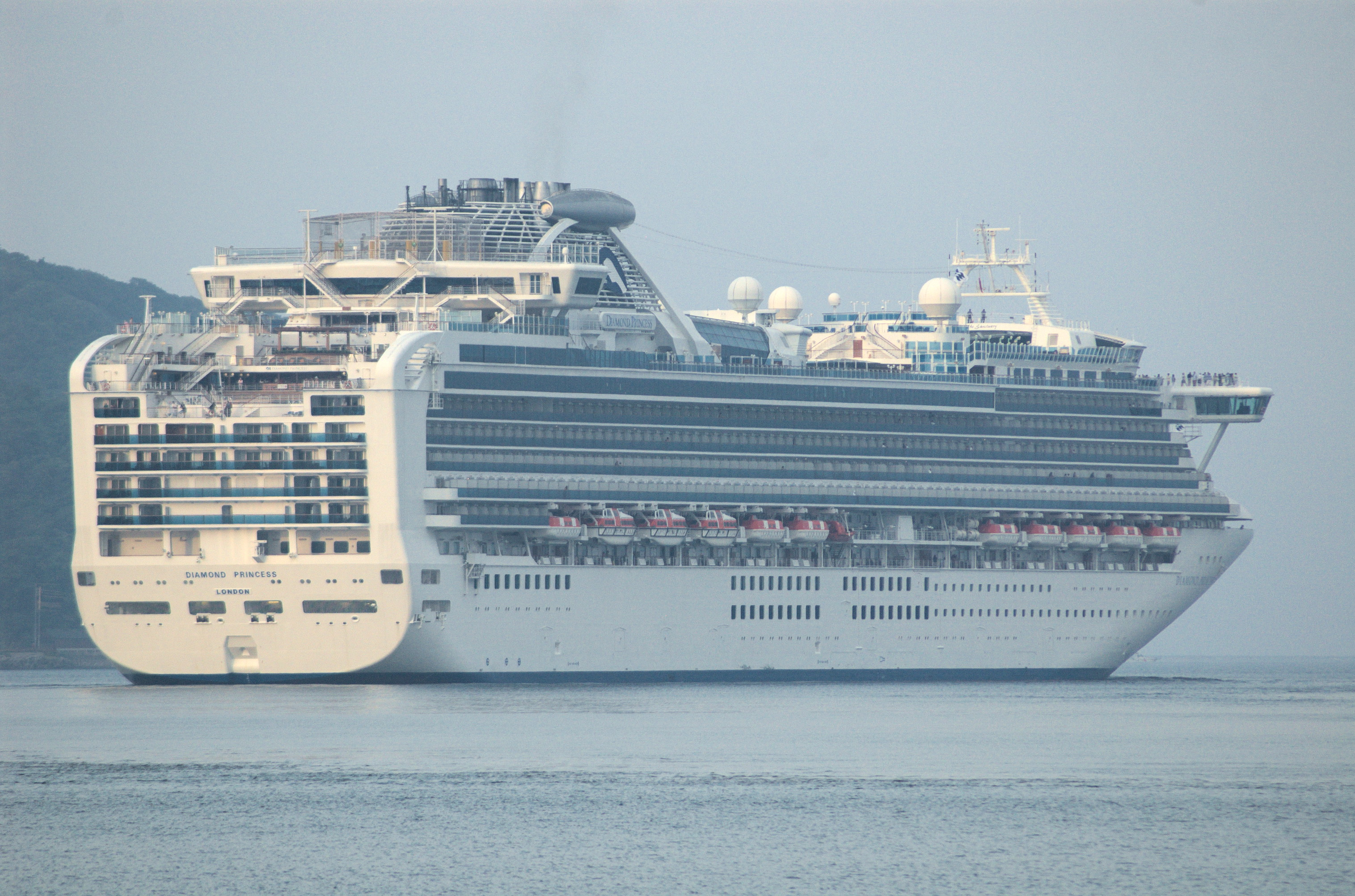 Diamond Princess cruise ship, Sakaiminato, Tottori Prefecture, Japan.